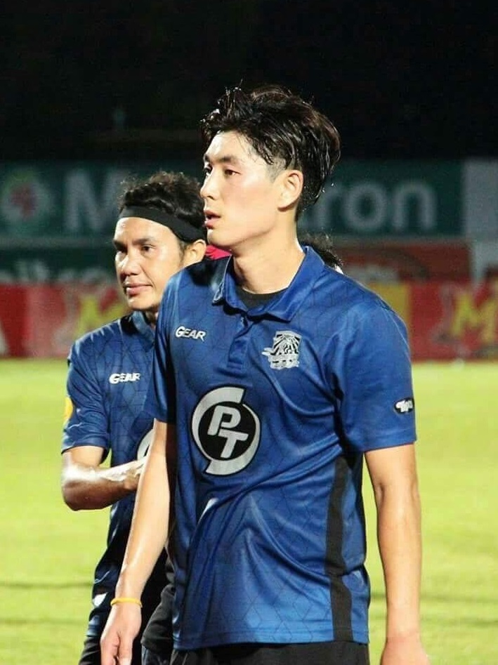 Kwon Daehee Profile Picture